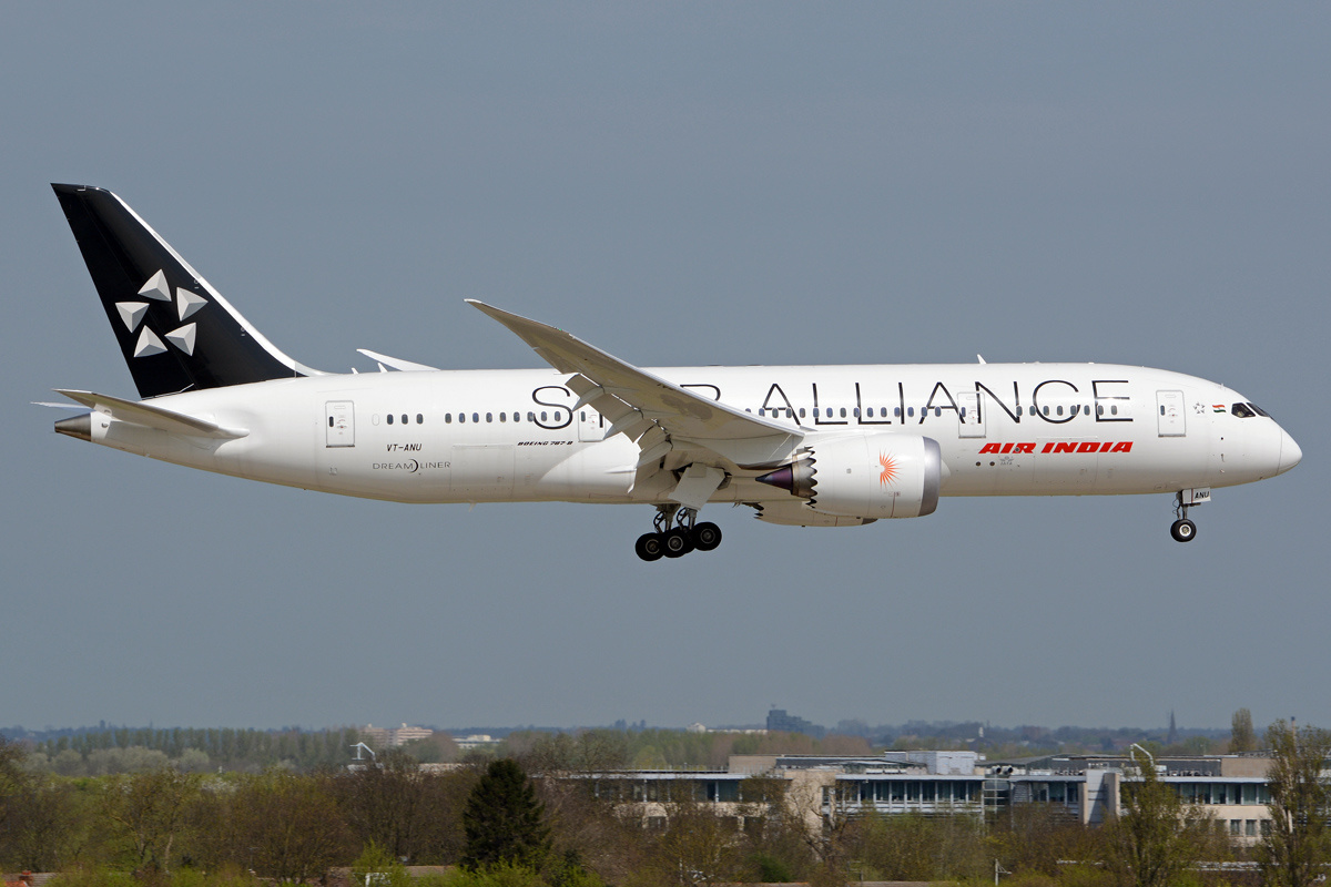 Air India Boeing 787-8 on final into LHR